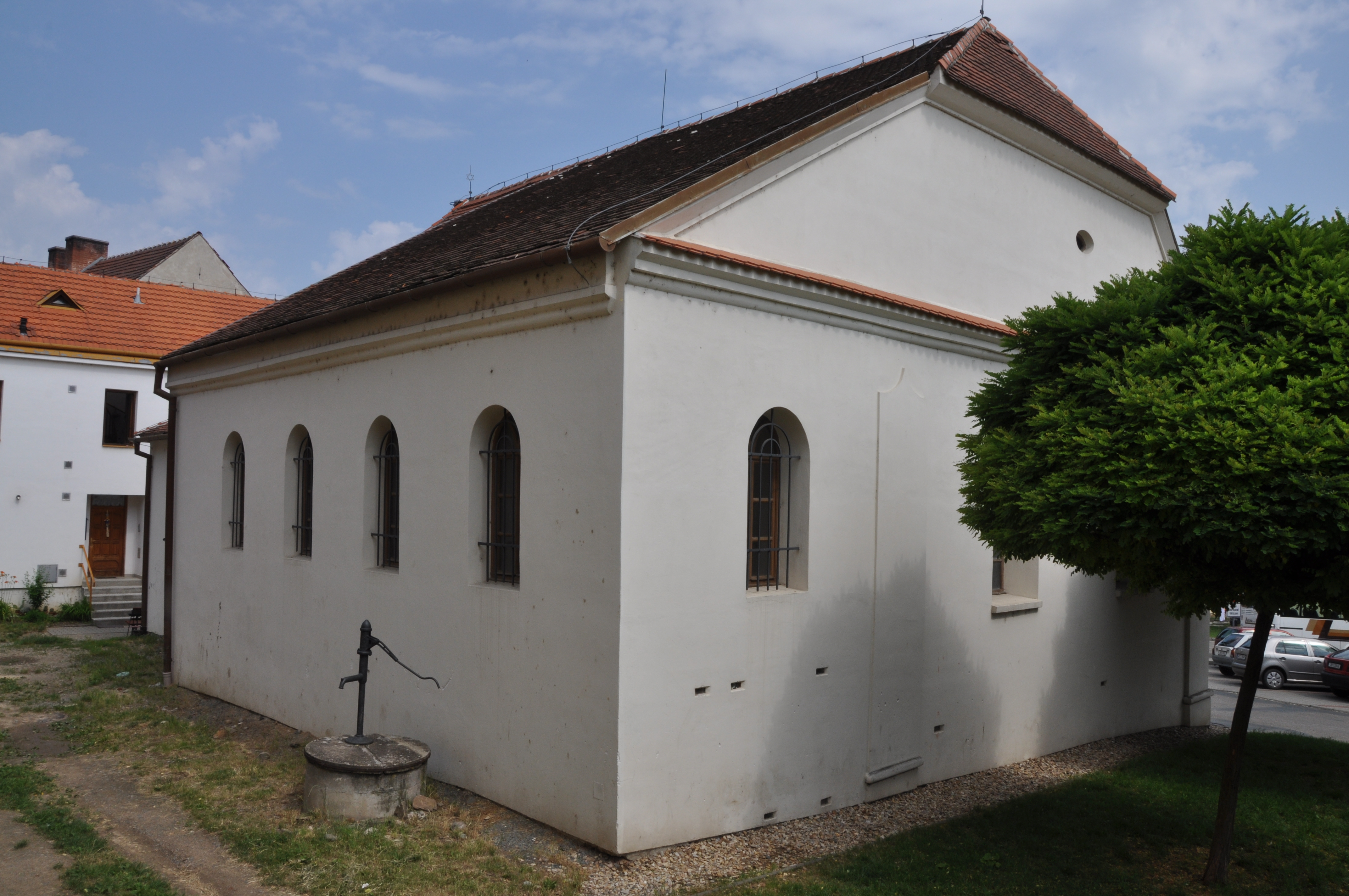 Dolní Kounice, Brno-Country District, Czech Republic. Synagogue.